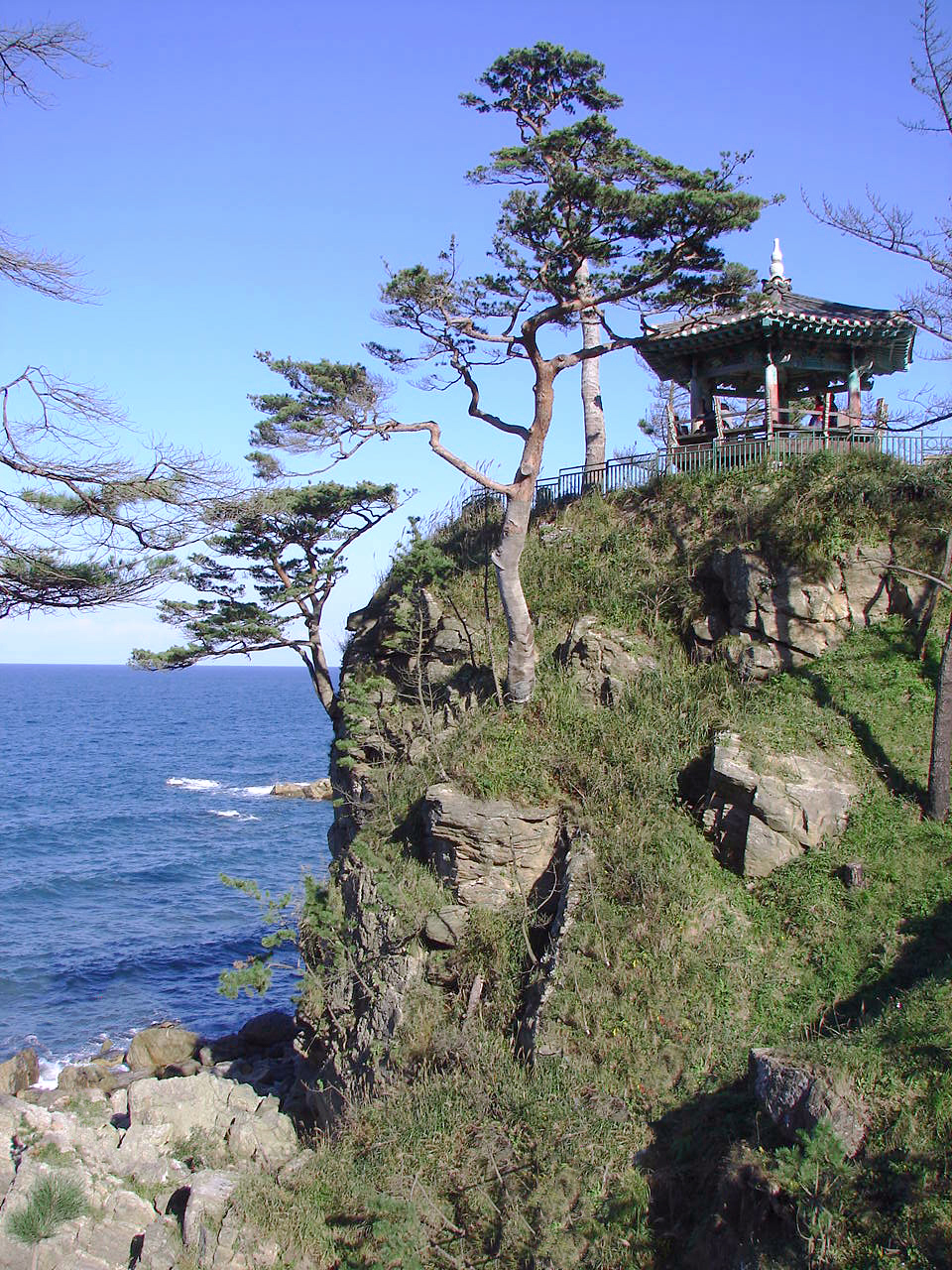 The pavilion at Uisangdae, a small temple site, perched atop a peak along the East Sea is believed to have built in 1925 at Naksansa nestled into the side of Naksan Mountain, not far from Sokcho South Korea.